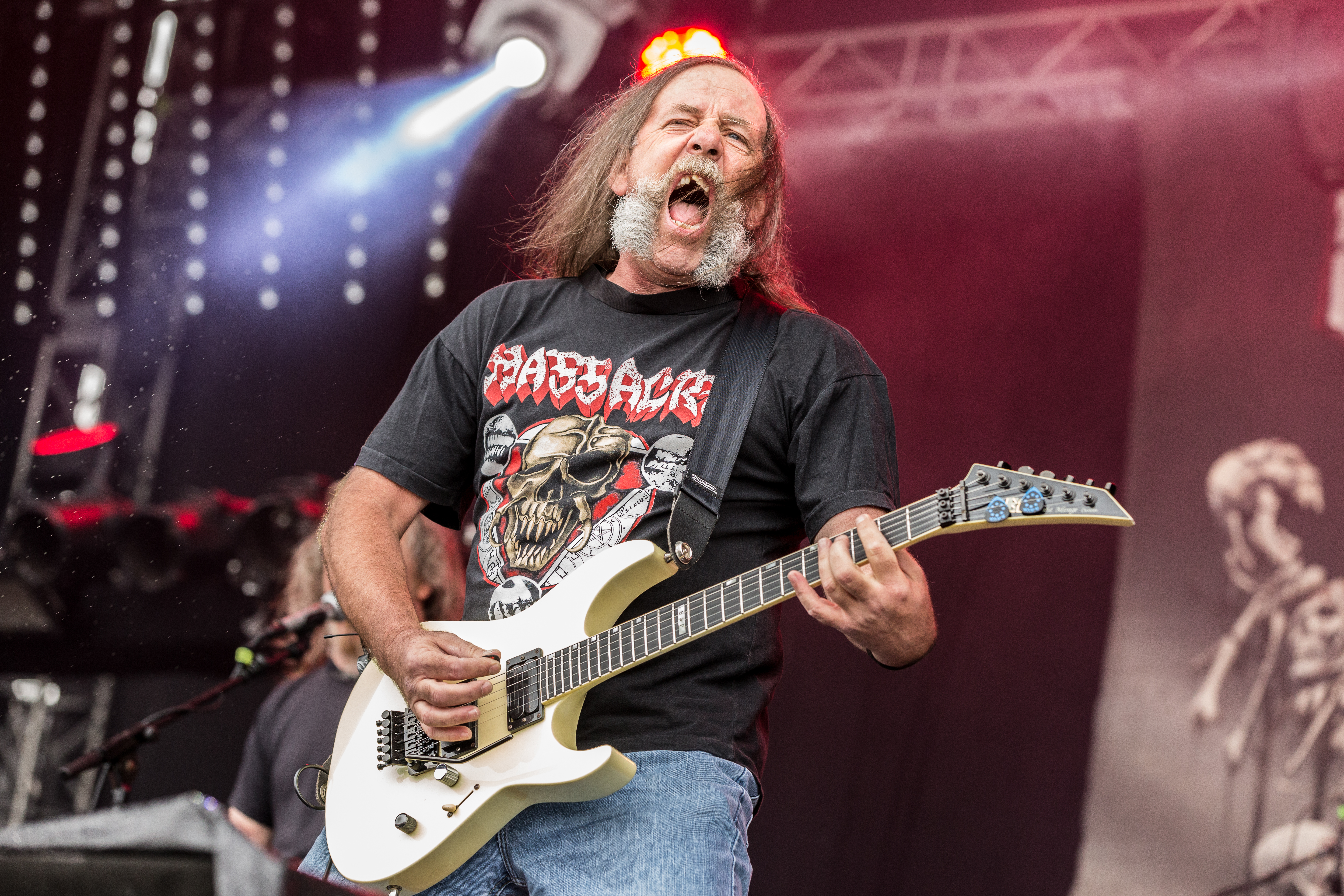 The American thrash metal band Demolition Hammer at the Party.San Metal Open Air 2017 in Obermehler-Schlotheim/Germany.